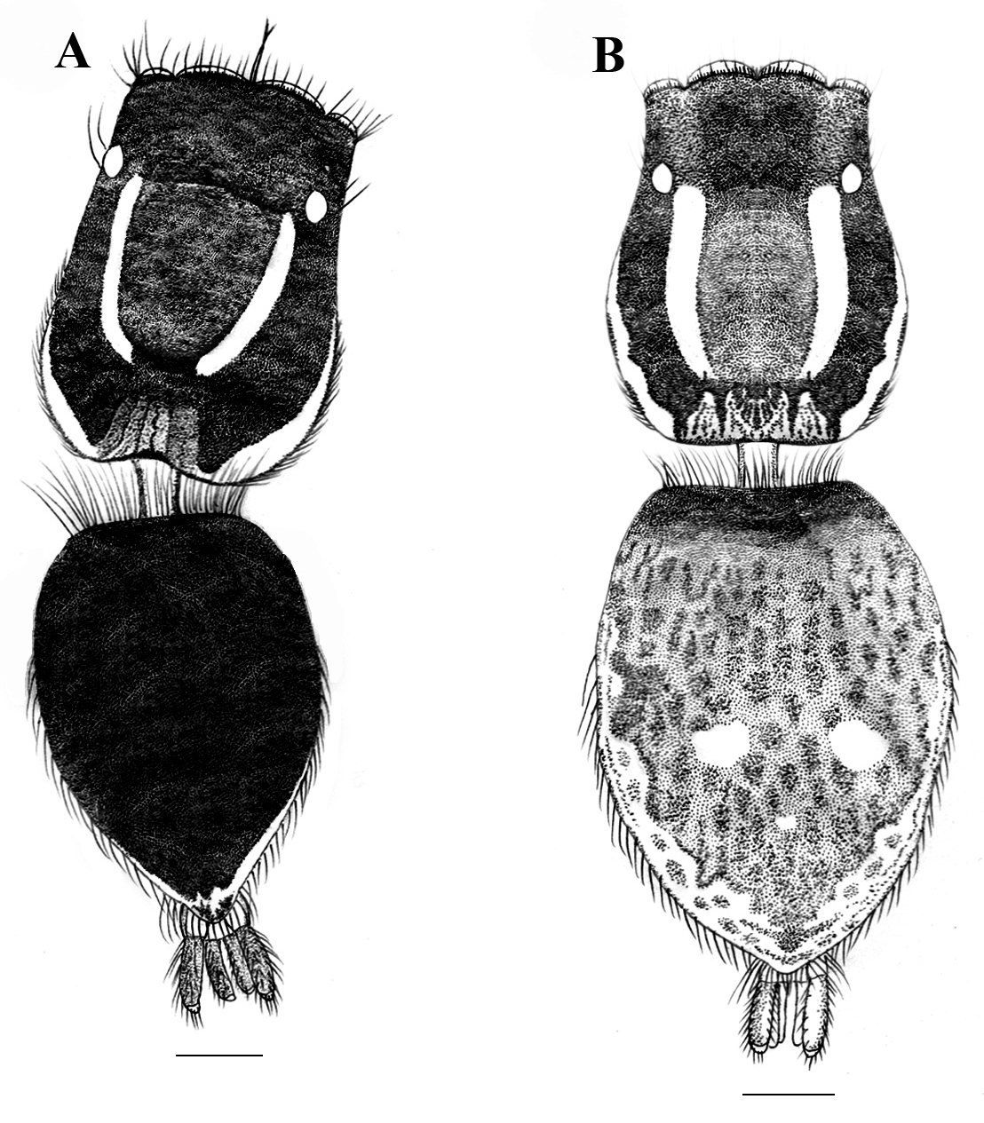 Stenaelurillus albus sp. n. A Male habitus, dorsal view. B Female habitus, dorsal view. Scale bars: A = 0.58 mm; B = 0.68 mm.